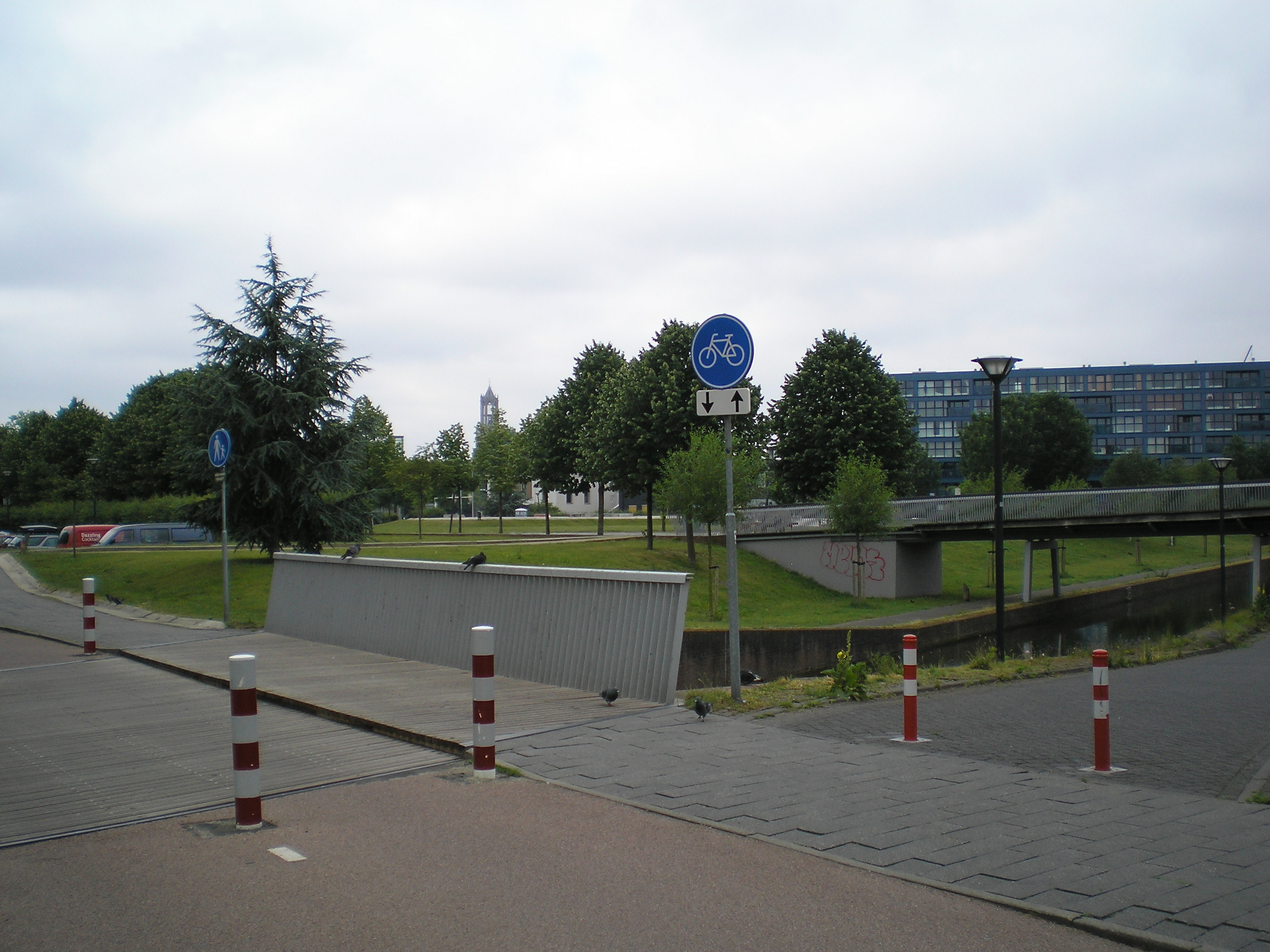 Biltsche Grift Grift Park in Utrecht in the Netherlands